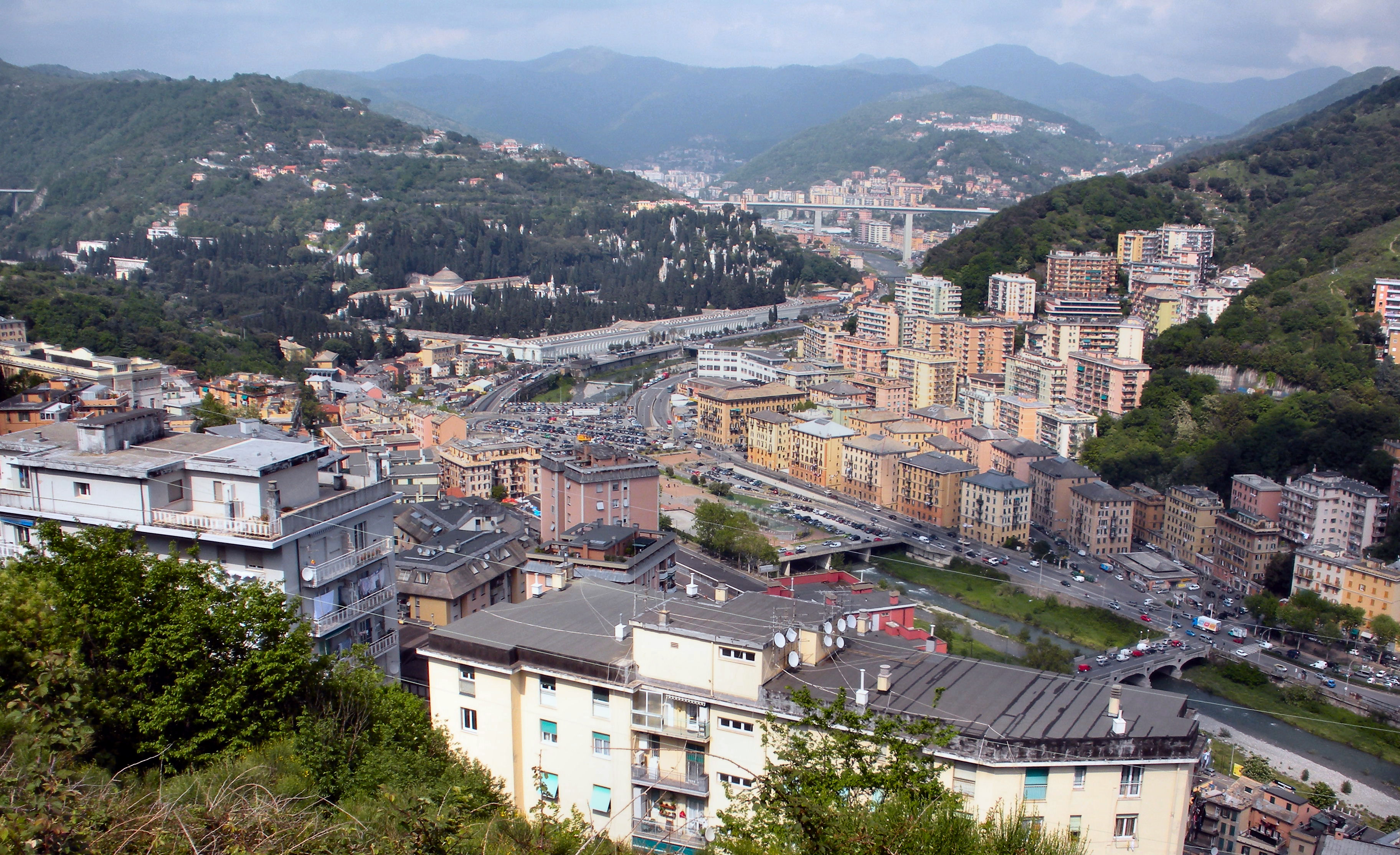 Genoa (Italy), view of Staglieno